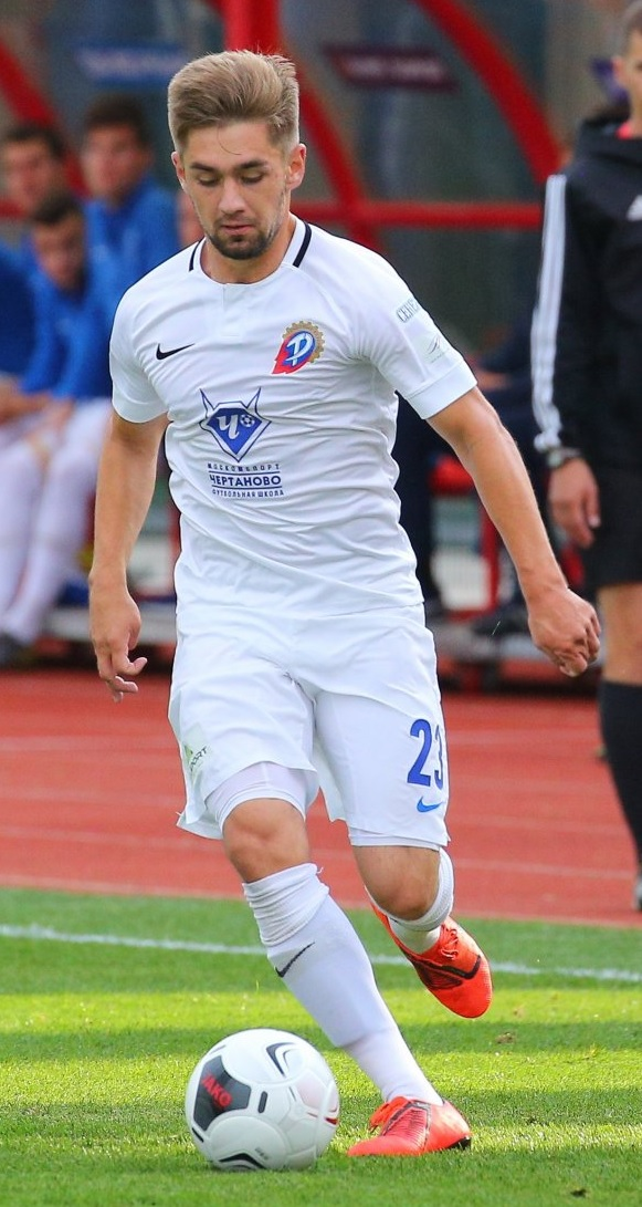 Yuri Gorshkov with FC Chertanovo Moscow in a game against FC Yenisey Krasnoyarsk.